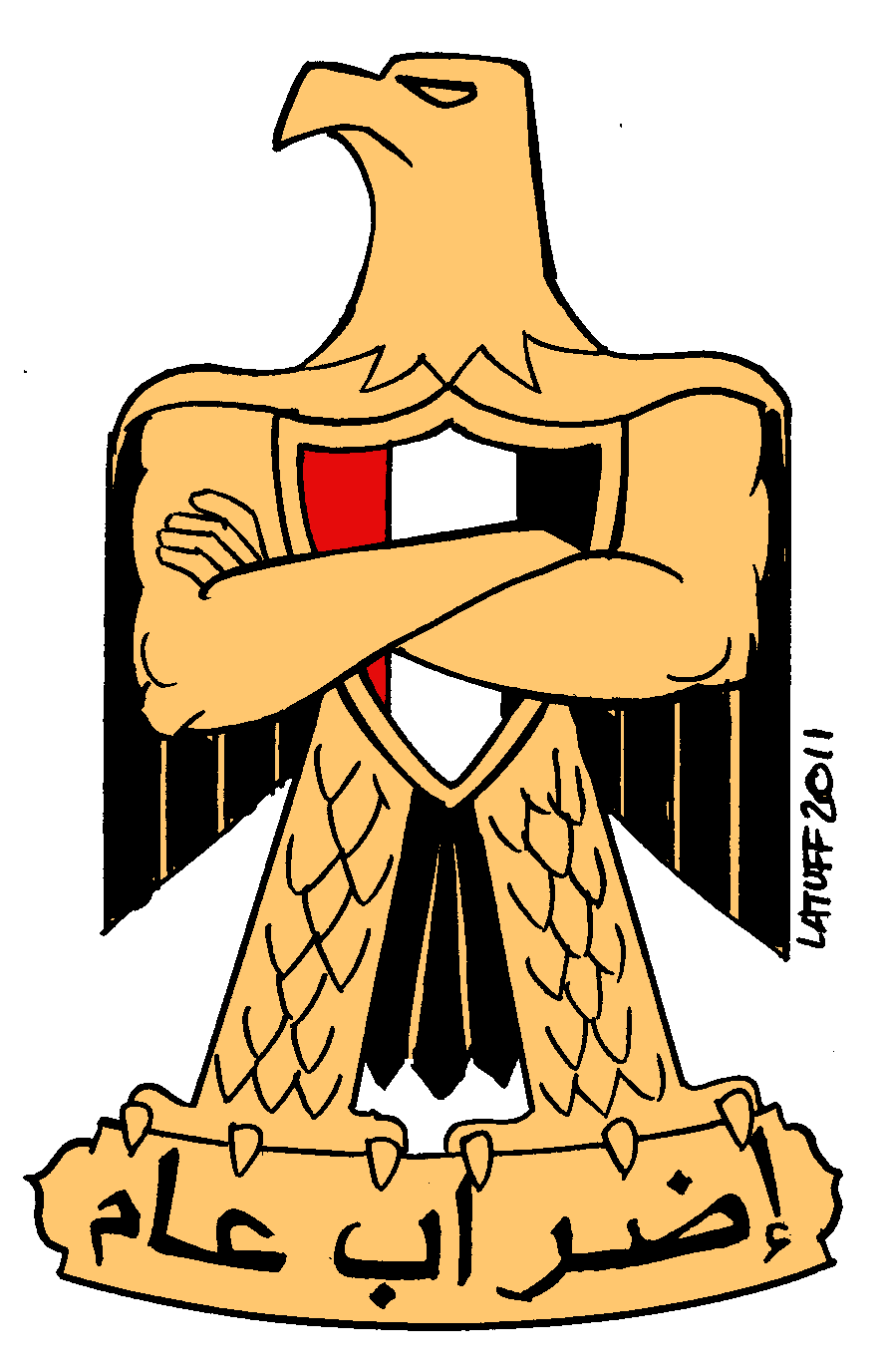 إضـراب عـام General Strike!